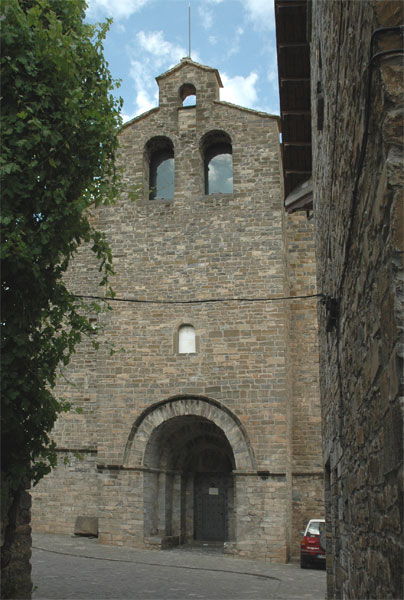 San Pedro de Siresa Monastery. Siresa, Huesca, Spain